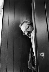 Grzegorz Rosinski